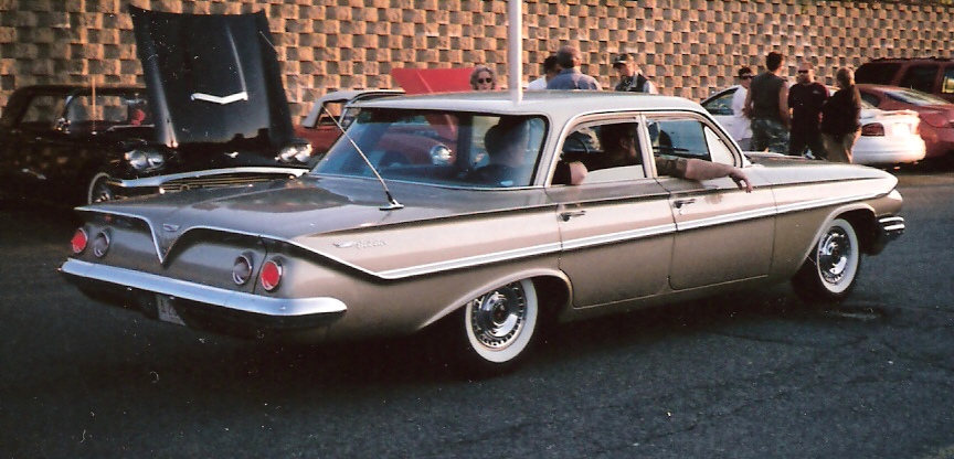 1961 Chevrolet Bel Air 4-door sedan I photographed in Saugus, Massachusetts in May 2008.